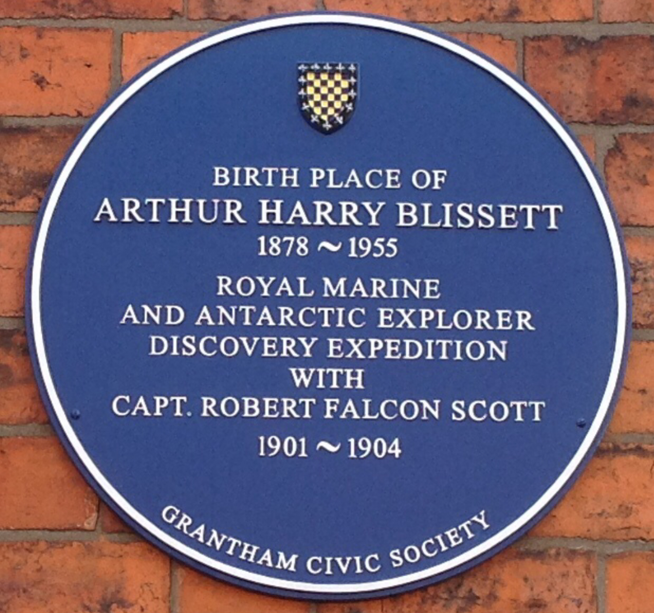 Arthur Blissett’s plaque 05, Grantham Civic Society, Manthorpe Road, Grantham to commemorate his service with Captain Scott on the Discovery Expedition 1901-1904